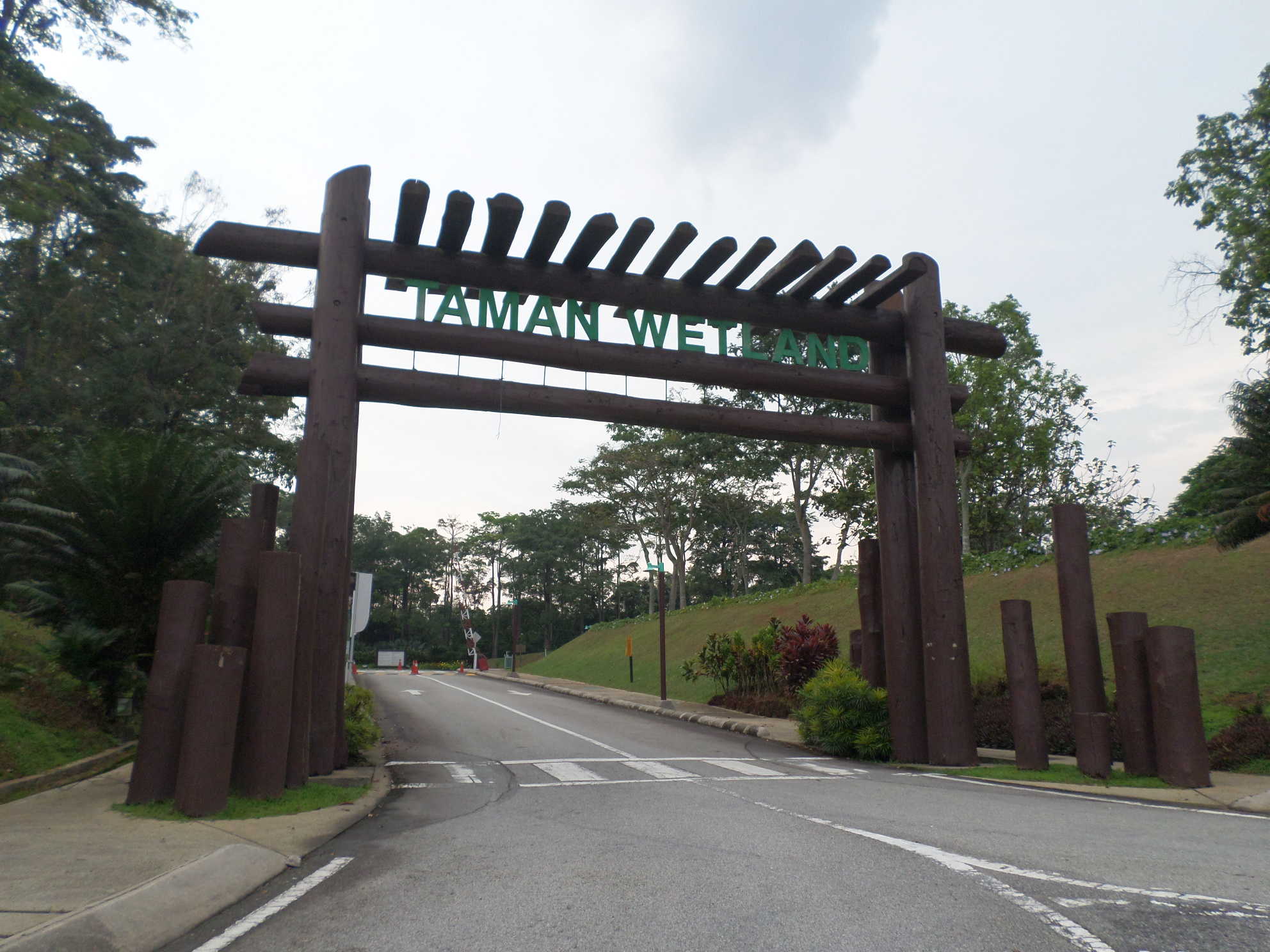 Putrajaya Wetlands Park, Presint 13, Putrajaya, Malaysia